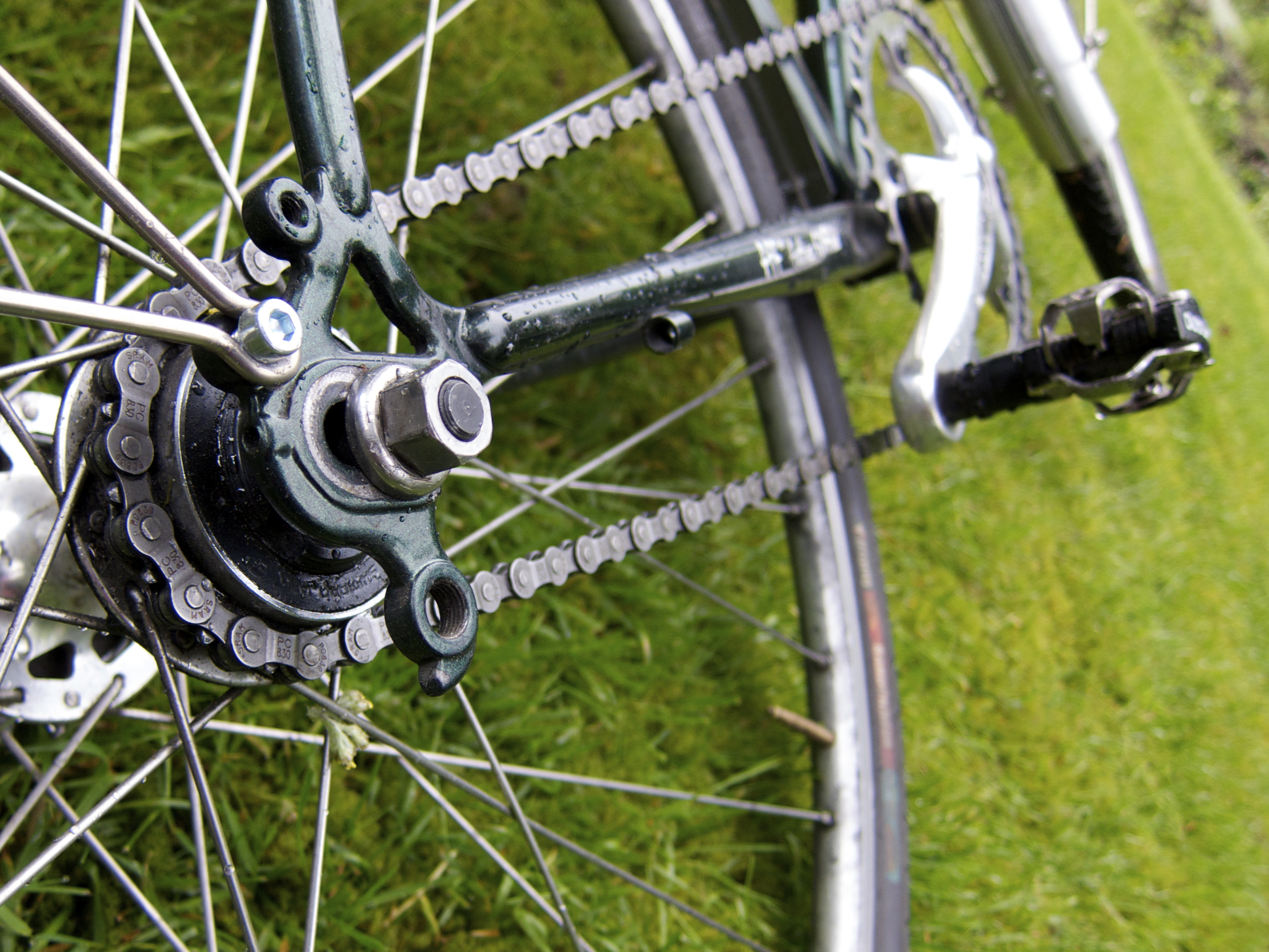 Doing a single-speed conversion @